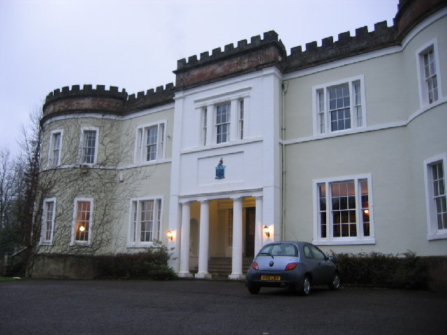 Overwater Hall Hotel. Used to be known as Whitefield.